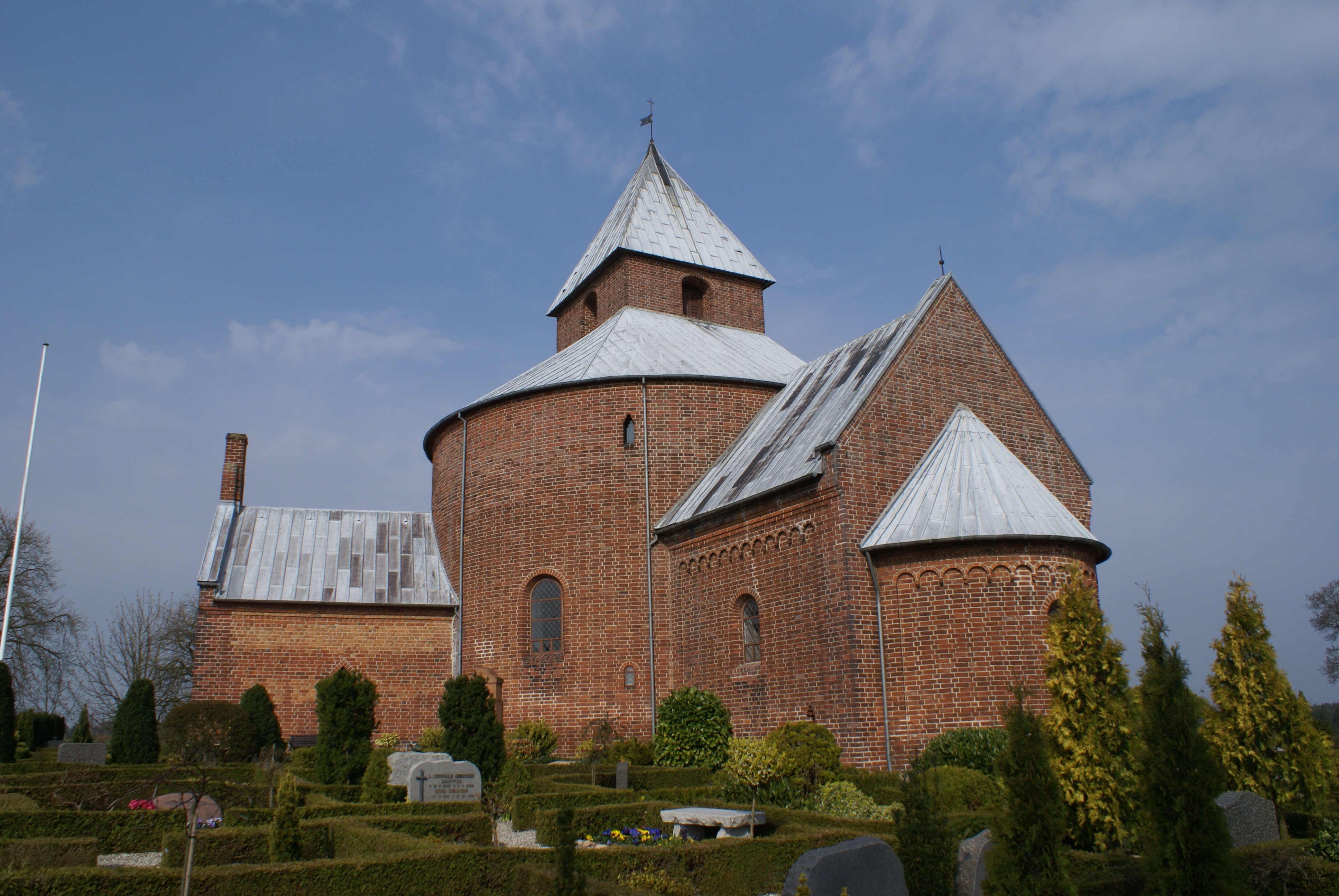 Thorsager Church, Denmark